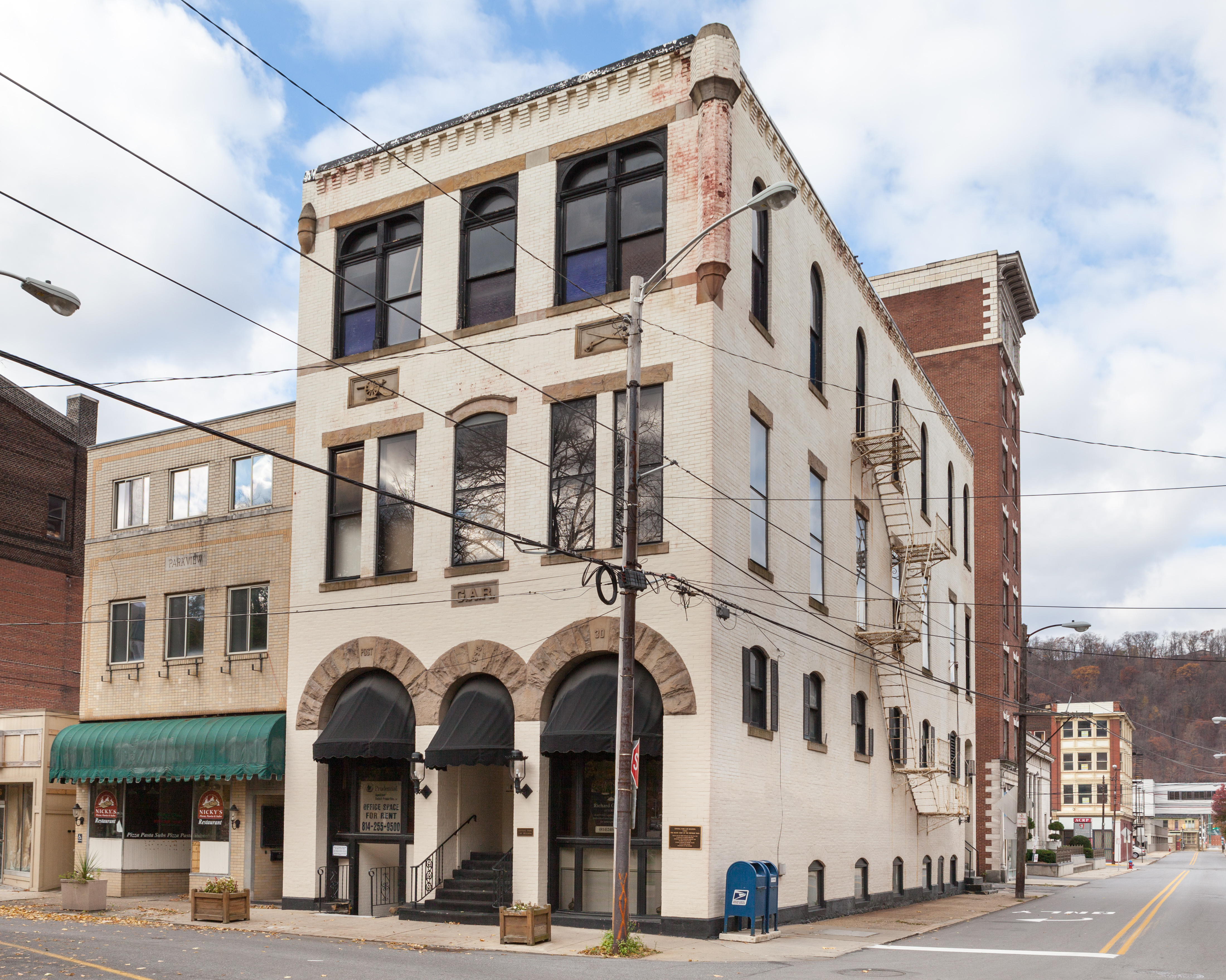 Grand Army of the Republic Hall in Johnstown, Pennsylvania, originally built for Post 30 of the Grand Army of the Republic, a fraternal organization for veterans on the Union side of the American Civil War.